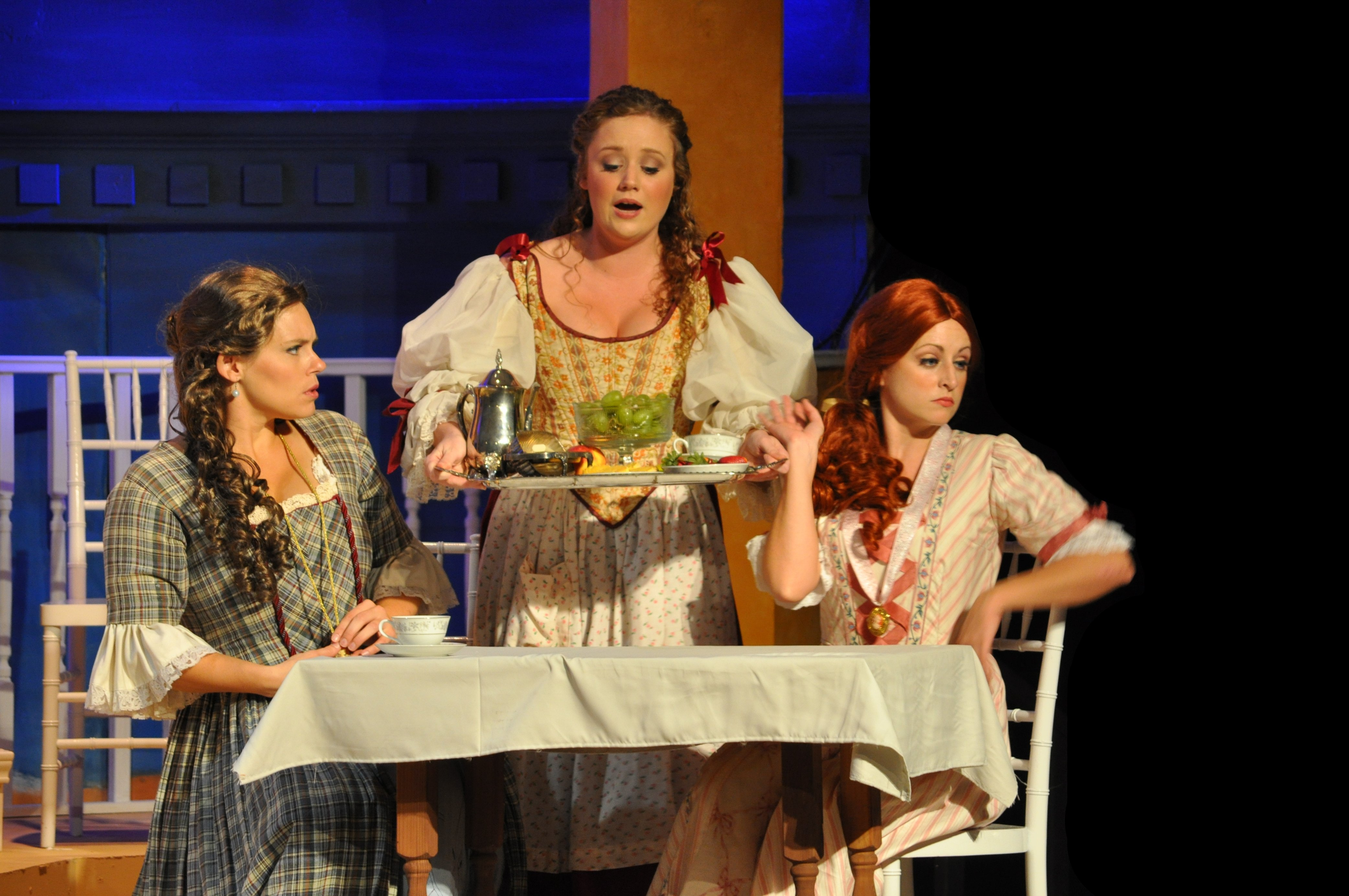 Opera in the Heights